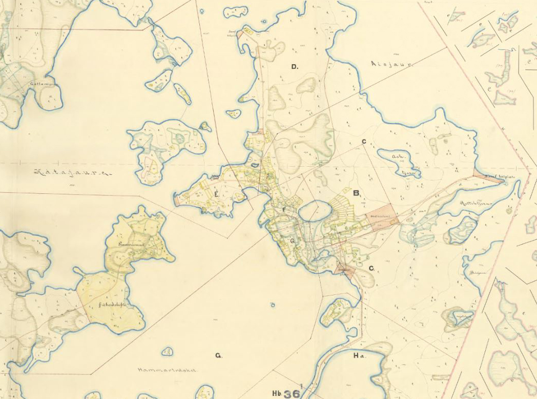 Part of map of Båtsjaur village, Arjeplog parish, Norrbotten county, northern Sweden, drawn in 1895-96.